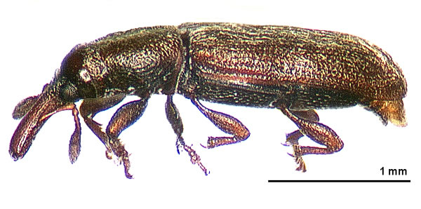 Lateral view of a specimen of Agastegnus aeneopiceus photographed by Landcare Research New Zealand Ltd.